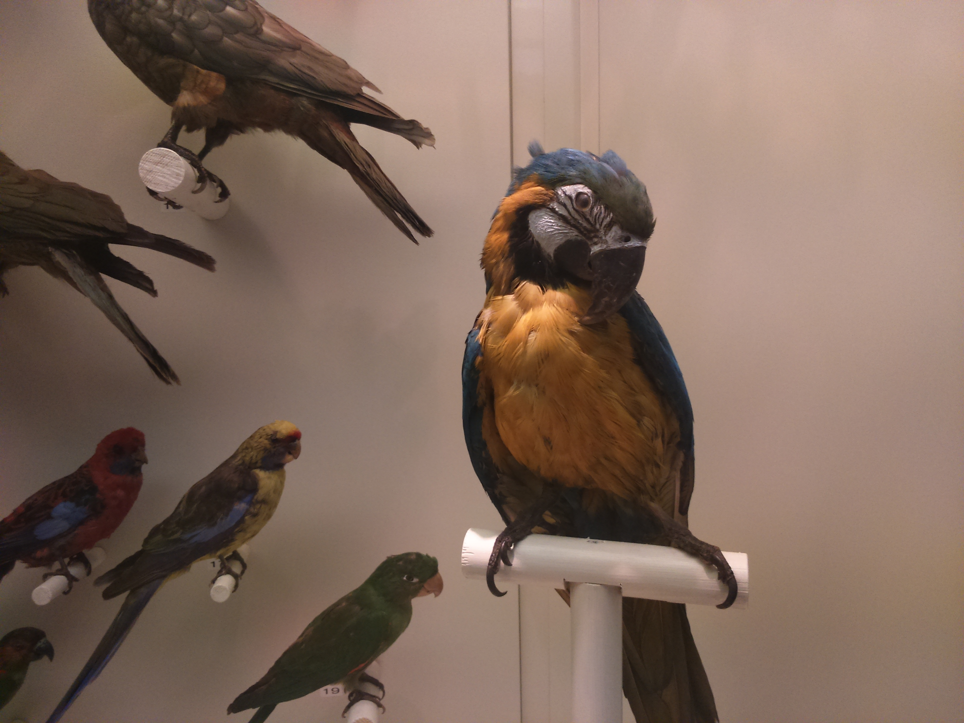 ara ararauna in the Eichsfeldmuseum